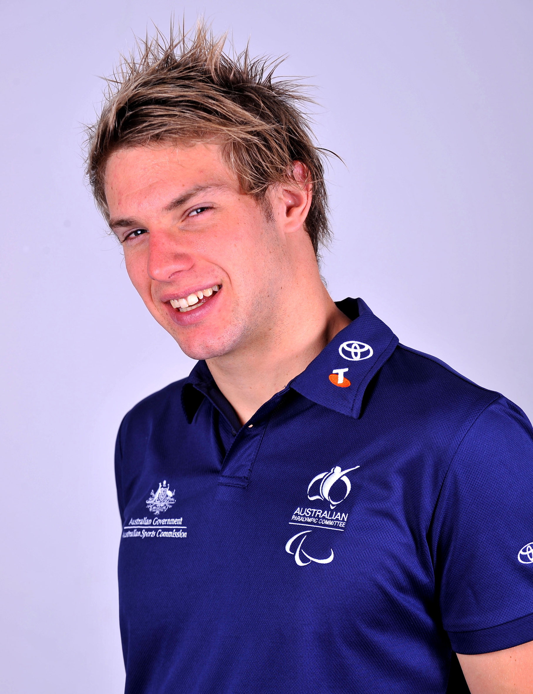 Portrait of Australian swimmer Daniel Fox, 2012 Australian Paralympic (shadow) Team athlete